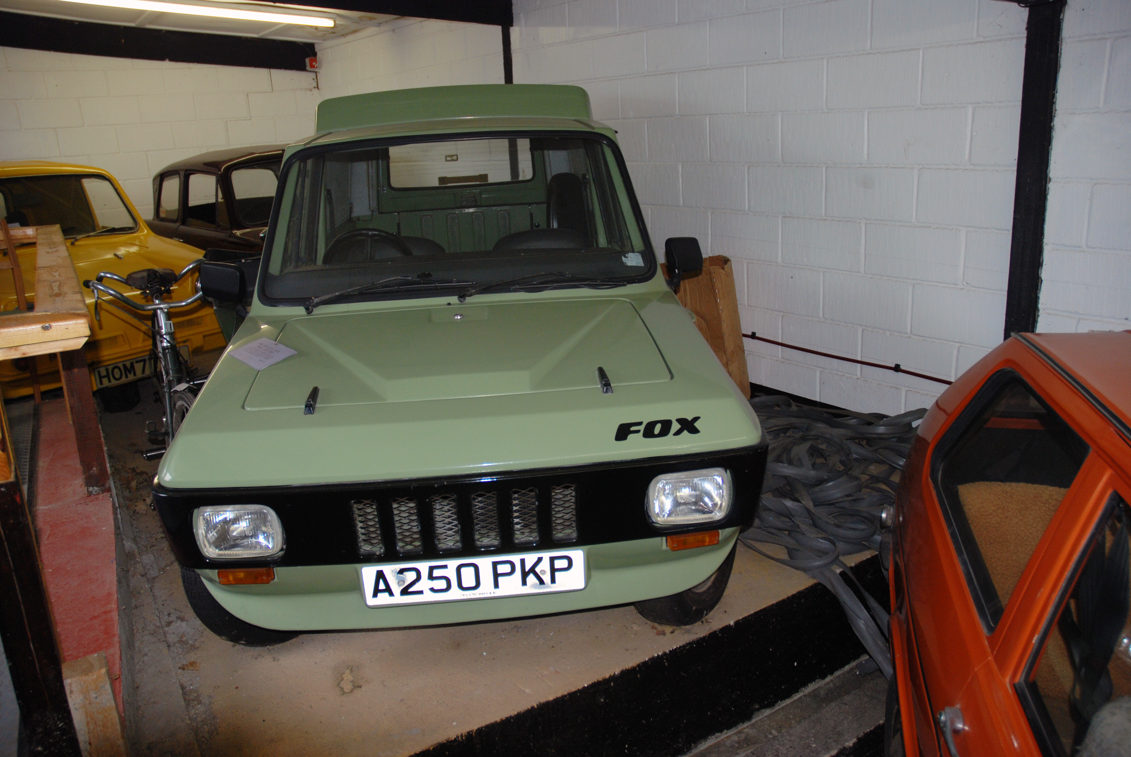 Stondon Transport Museum Oct 2007